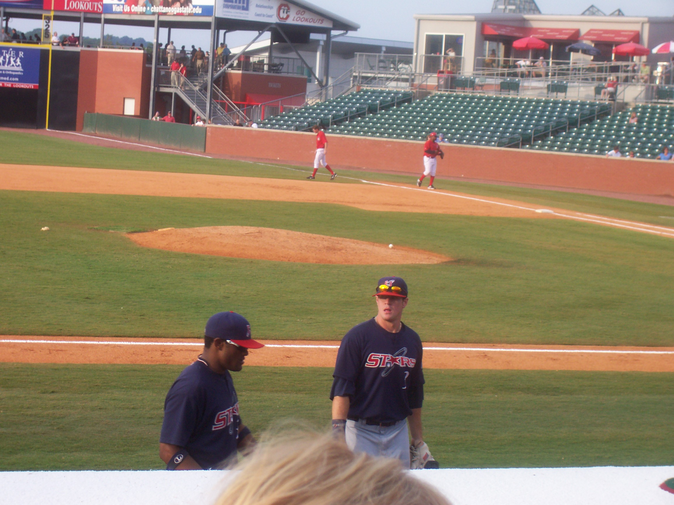 Description A picture of Matthew LaPorta entering the dugout DateJune 2, 2008SourceI created this work entirely by myself.AuthorHatmatbbat10Talk to me 20:24, 13 June 2008 . . Hatmatbbat10 . . 2,304×1,728 (728 KB) A picture of Matthew LaPorta entering the dugout